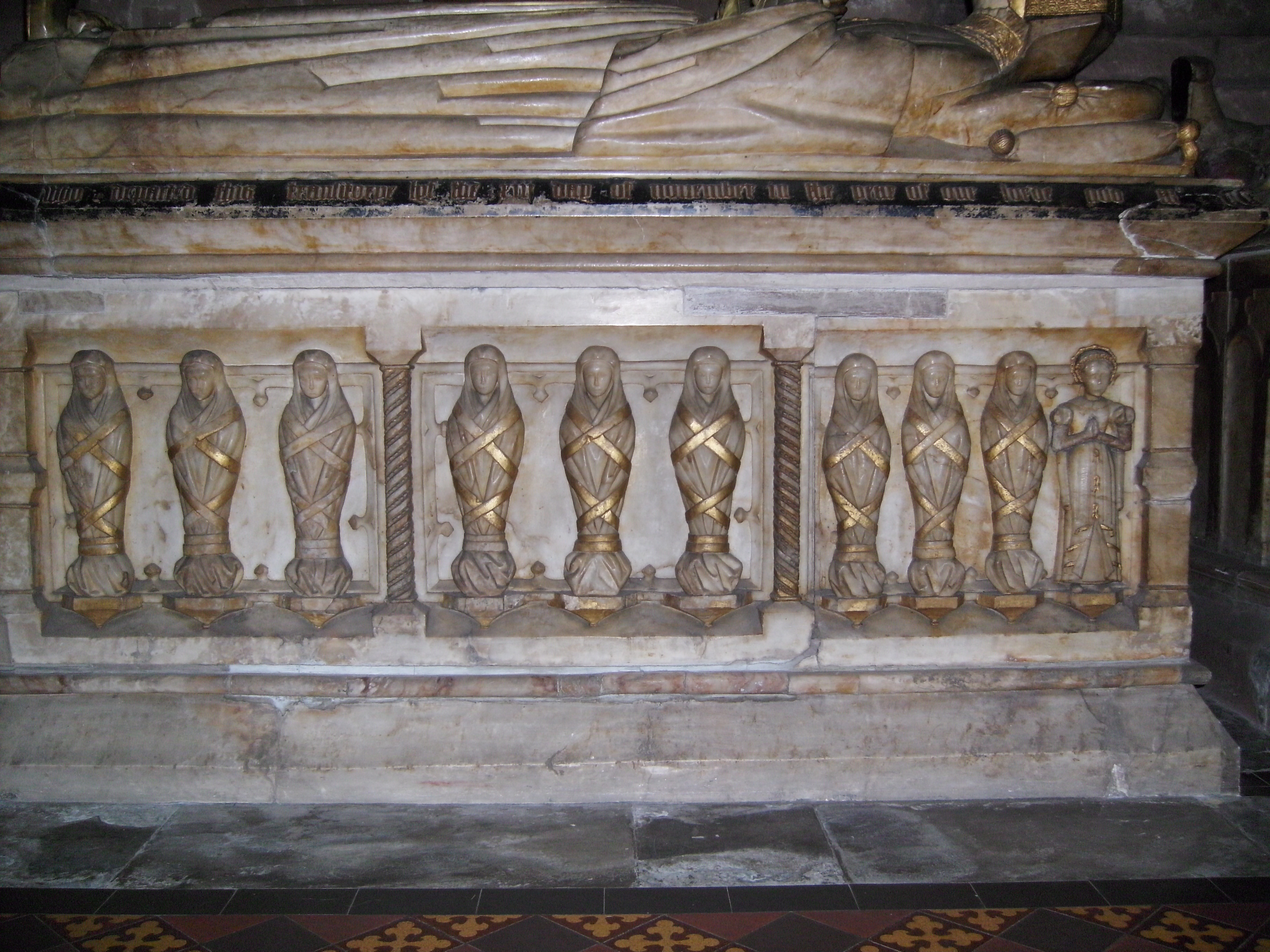 Children, most deceased of Sir John Giffard (died 1556) of Chillington Hall, Brewood, Staffordshire. Brewood parish church.